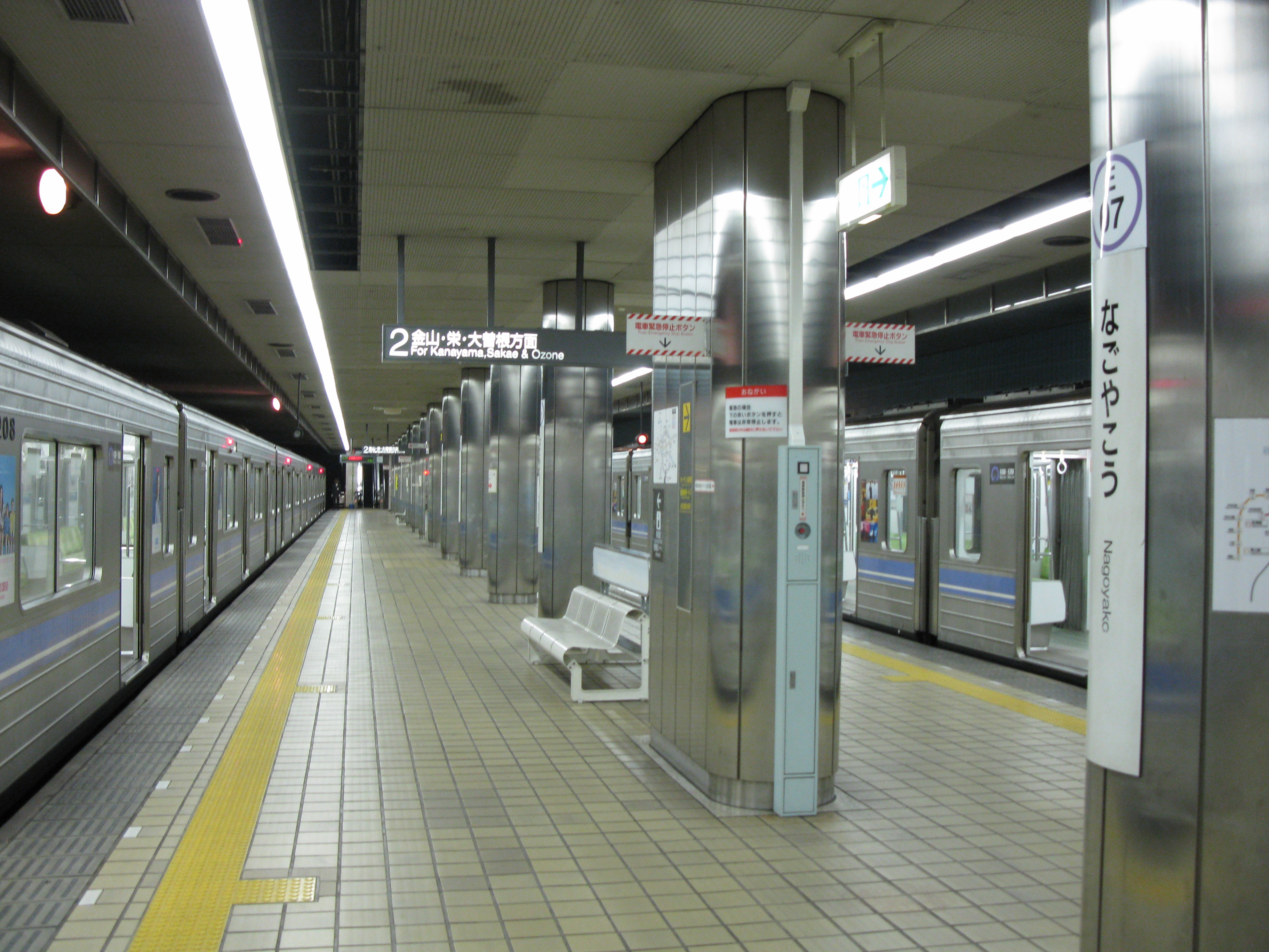 Nagoyakō Station platform (Nagoya Municipal Subway Meikō Line)